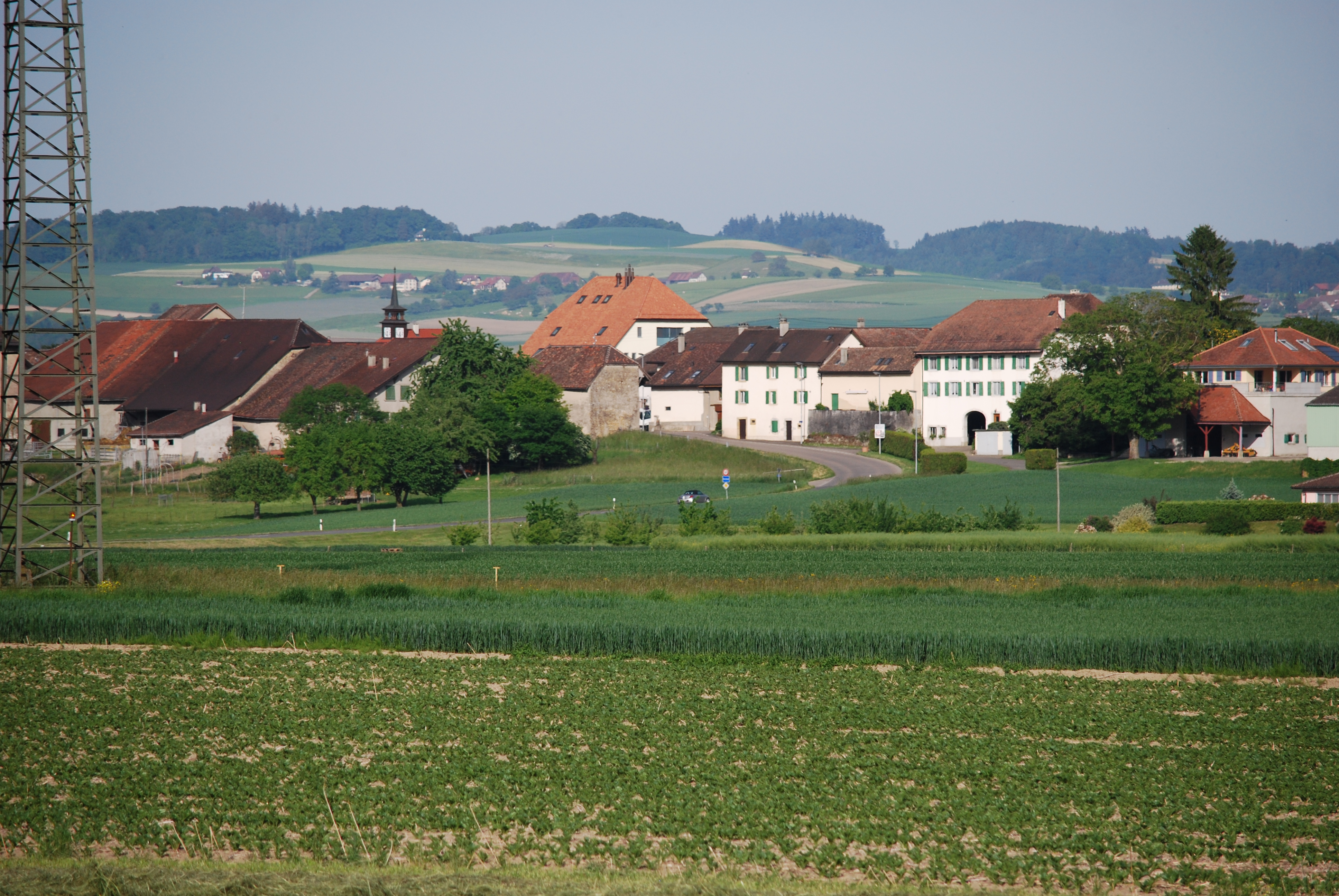 Suscévaz, canton of Vaud, SwitzerlandEsperanto: Suscévaz, Kantono Vaŭdo, Svislando